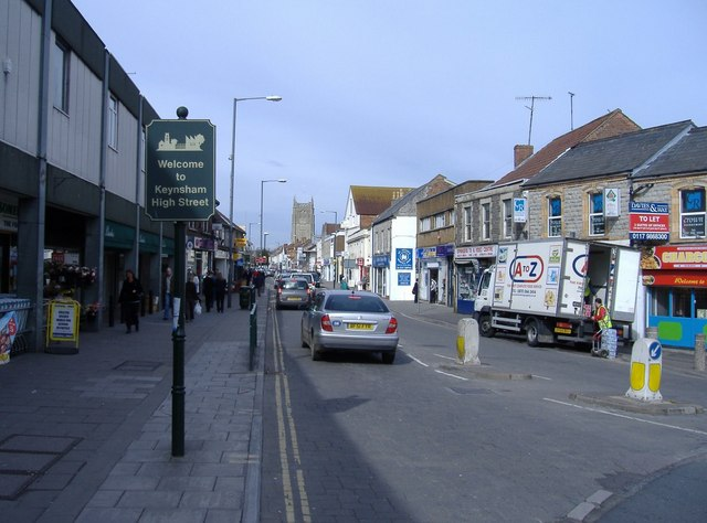 Keynsham High Street. That's... K. E. Y. N. S. H. A. M......Made famous, on Radio Luxembourg in the 1960's by Pools millionaire Horace Batchelor. There can't be a listener from that generation, who is unaware that Keynsham was home to Horace's 'world headquarters', nor indeed how to spell it!